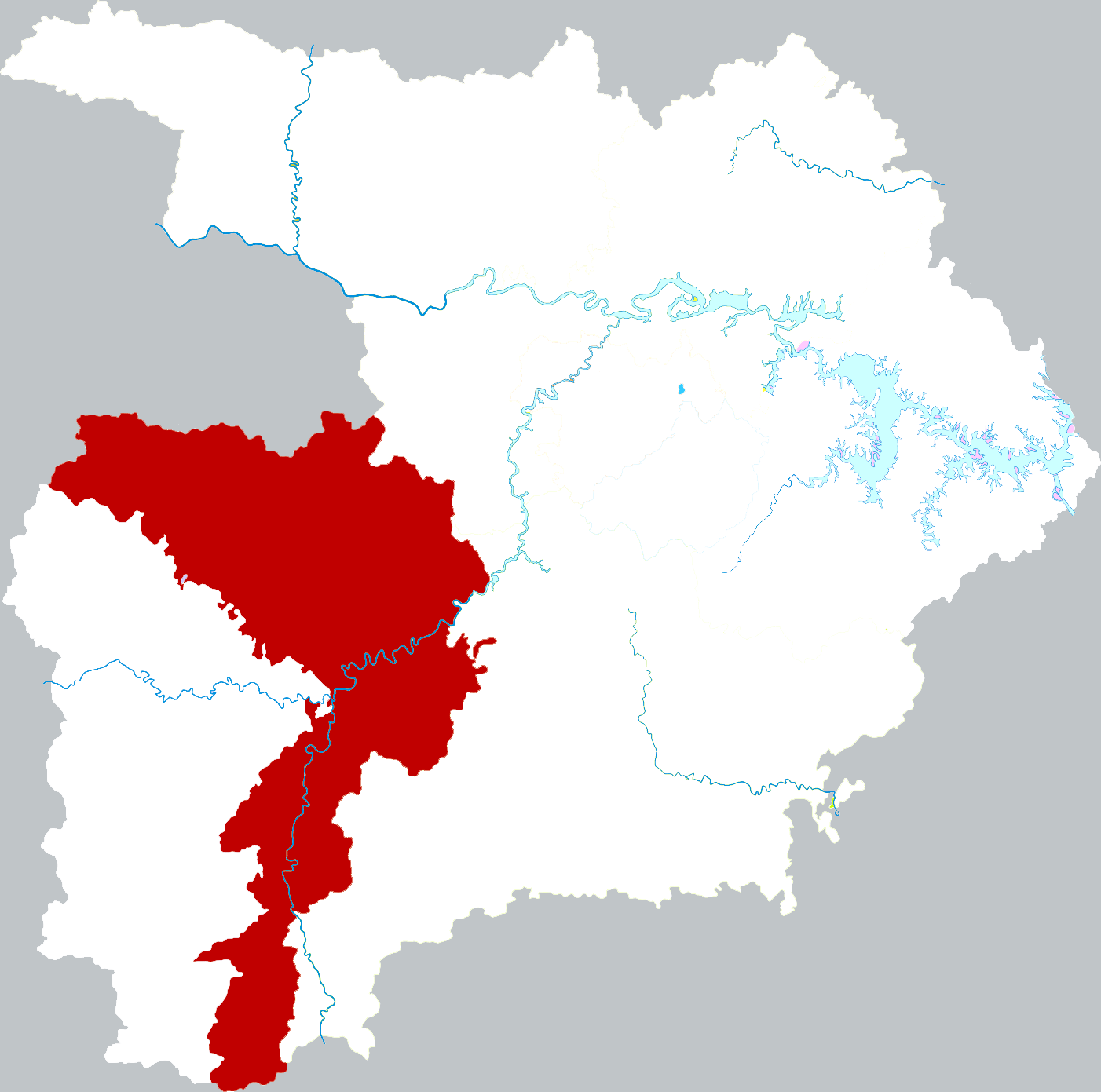 Location of Zhushan county in Shiyan city, China